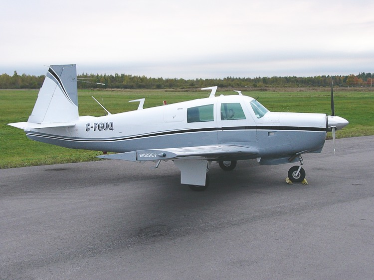 I took this photo of a Mooney M20C (C-FGUQ) at carp Airport on 17 October 2007